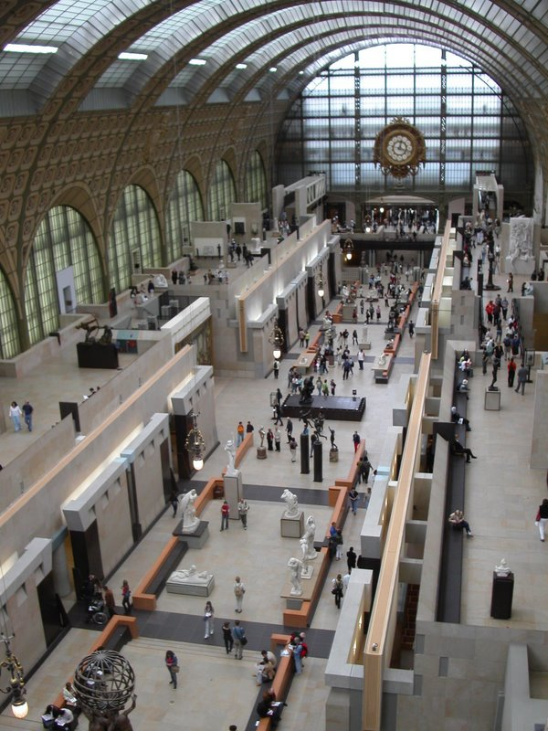 Inside of Orsay Museum in Paris